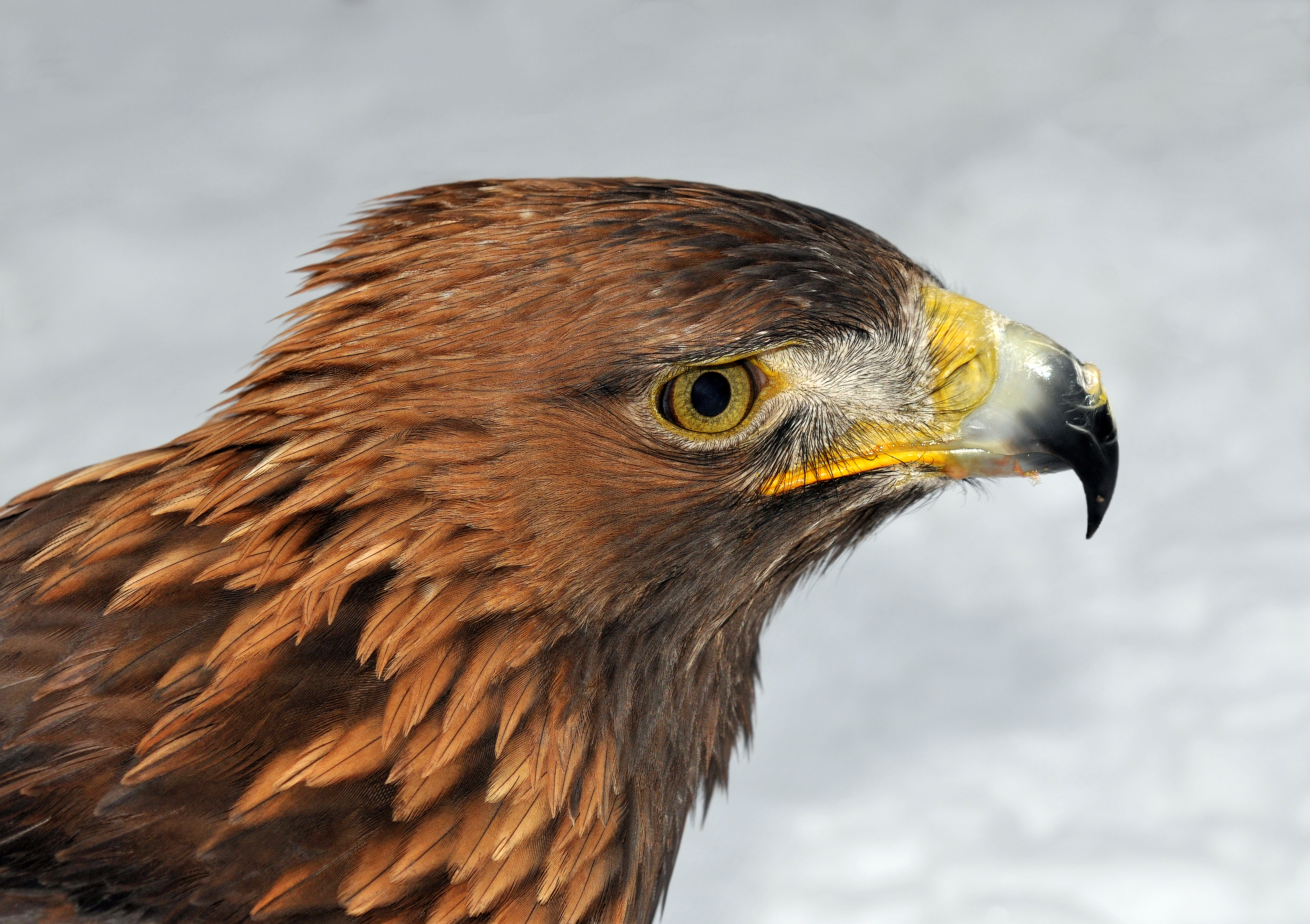 Golden Eagle in the Wisentgehege Springe game park near Springe, Hanover, Germany